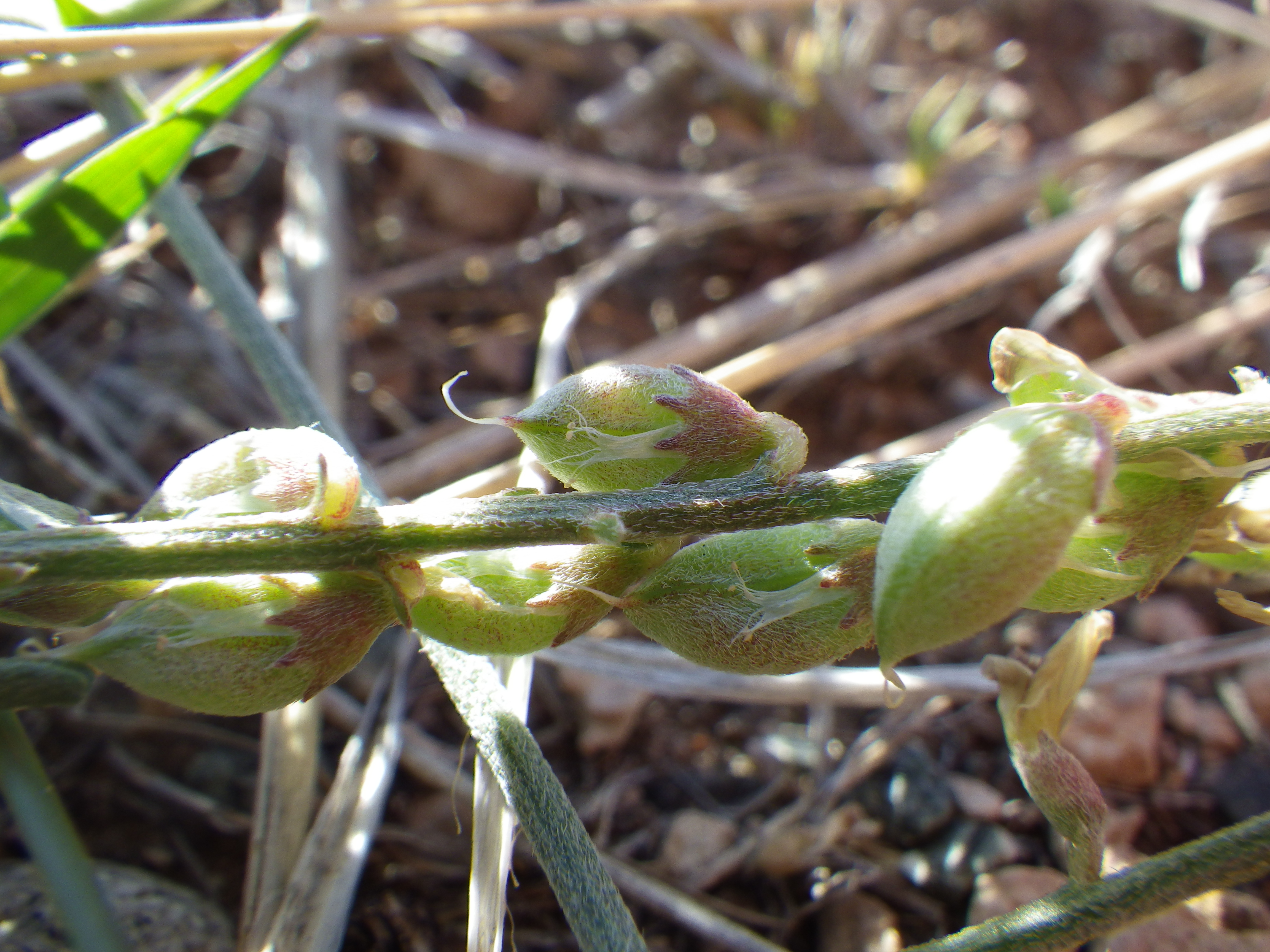 Both the purplish flowers and fruits (the pedicel of which bends downward with maturity) are distinctively small in overall size.